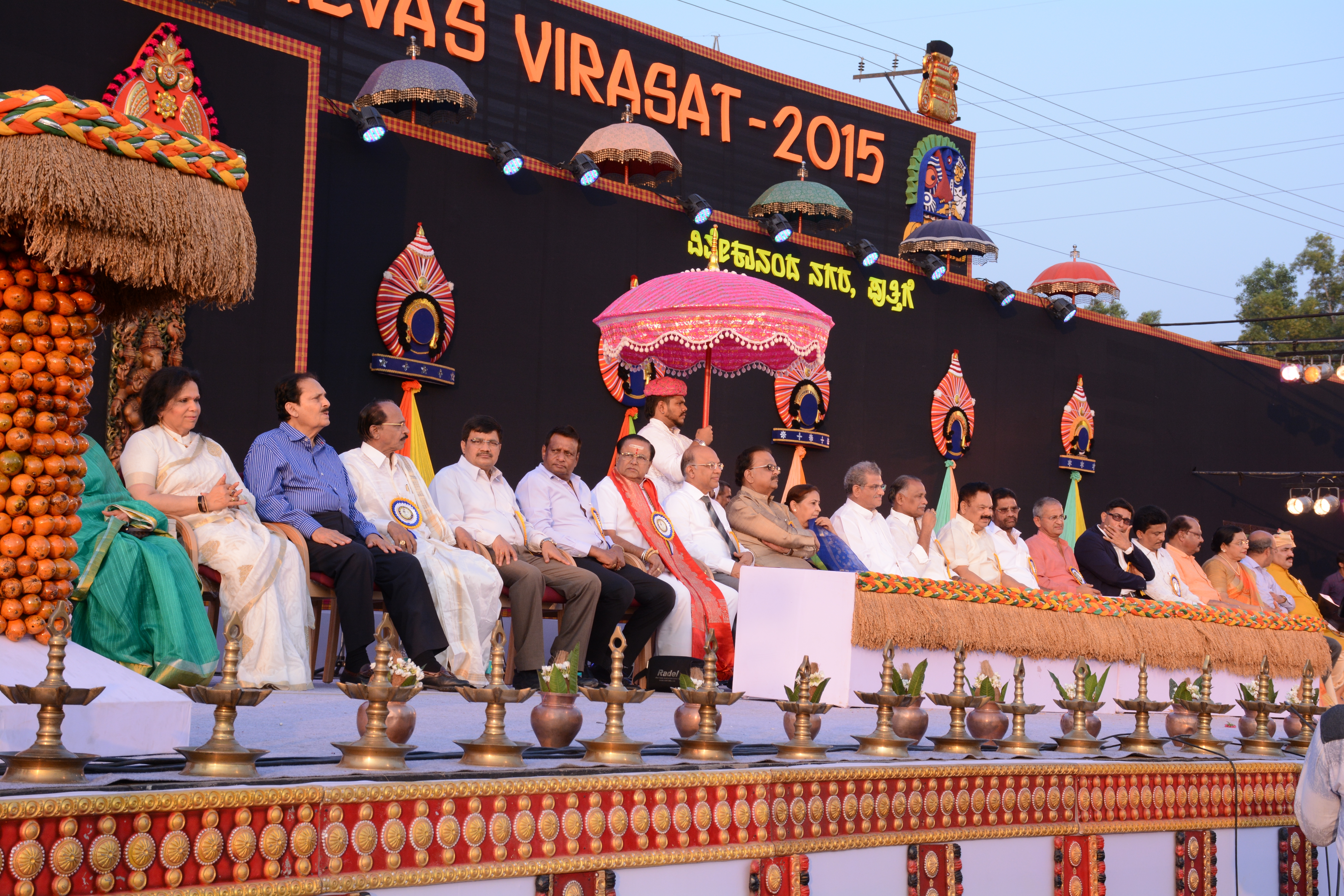 Photos taken during Alva's Virasat 2015 held at Smt. Vanajakshi K. Sripathi Bhat, Puthige, Moodbidri